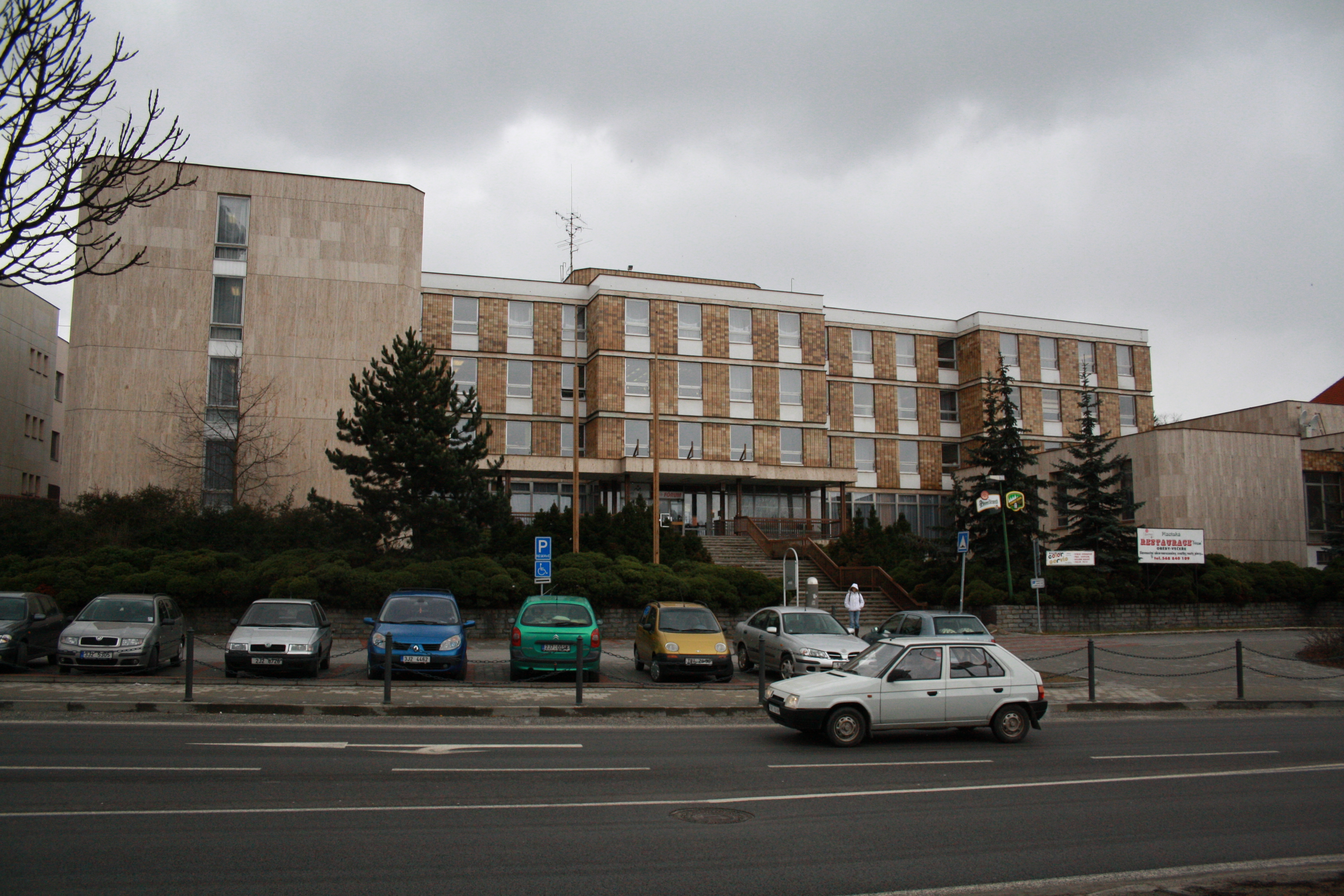 Building Forum with ZUŠ and dance halls in Třebíč.